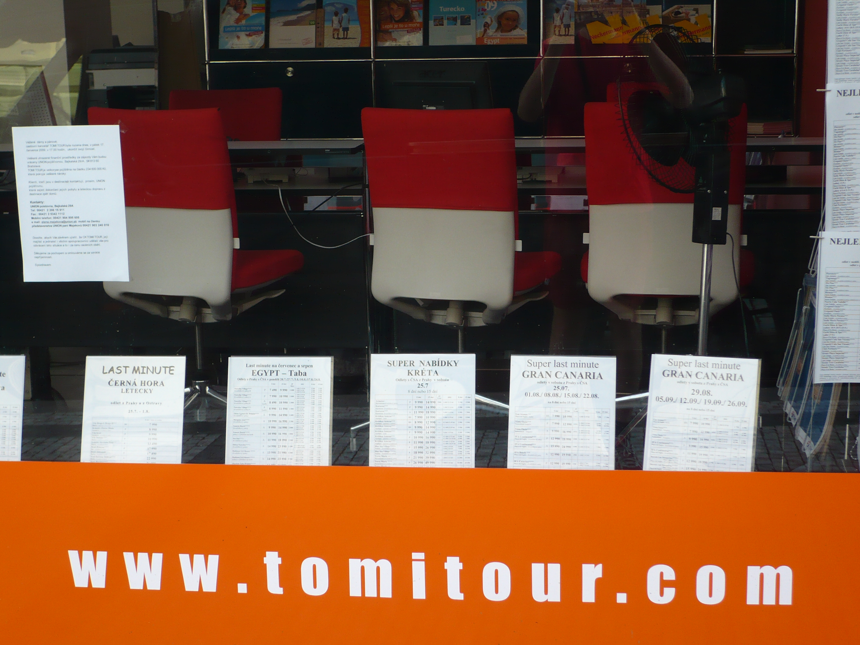 Tomi Tomi holiday offers, flight with Czech Airlines, the sheet on the left announces end of business